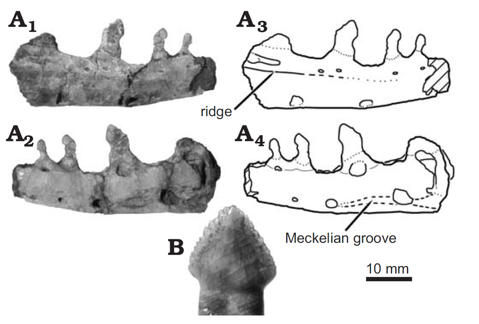 1. Mandibular and dental material of dinosauriform Diodorus scytobrachion gen. et sp. nov., Timezgadiouine Formation, Late Triassic. A. MNHM−ARG 30, holotype right dentary, in lateral (A1, A3) and medial (A2, A4) views. Photographs (A1, A2), explanatory drawings (A3, A4). B. MNHM−ARG 31, referred isolated tooth. B not to scale.